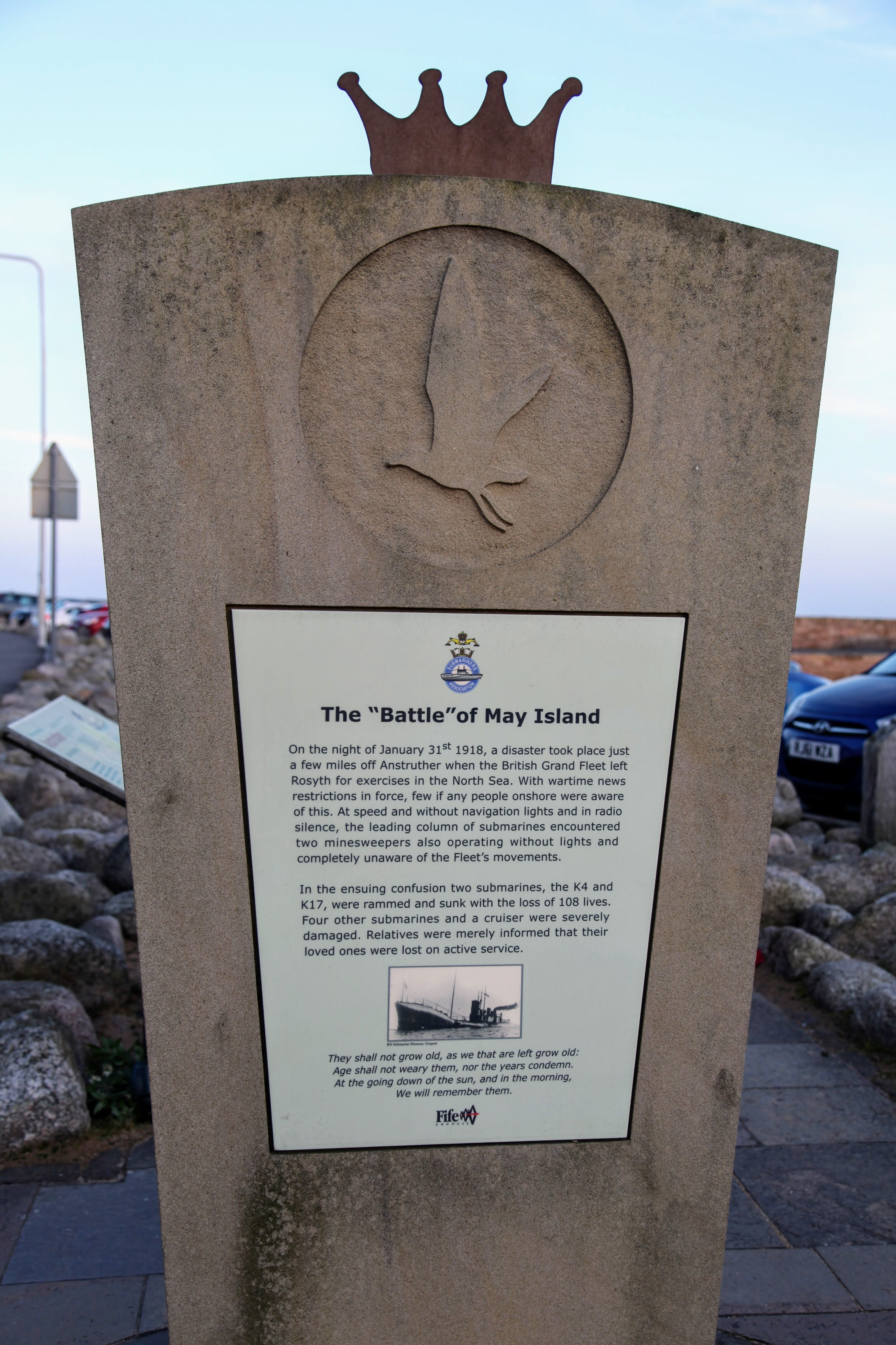 The memorial to the Battle of May Island, Anstruther, Fife